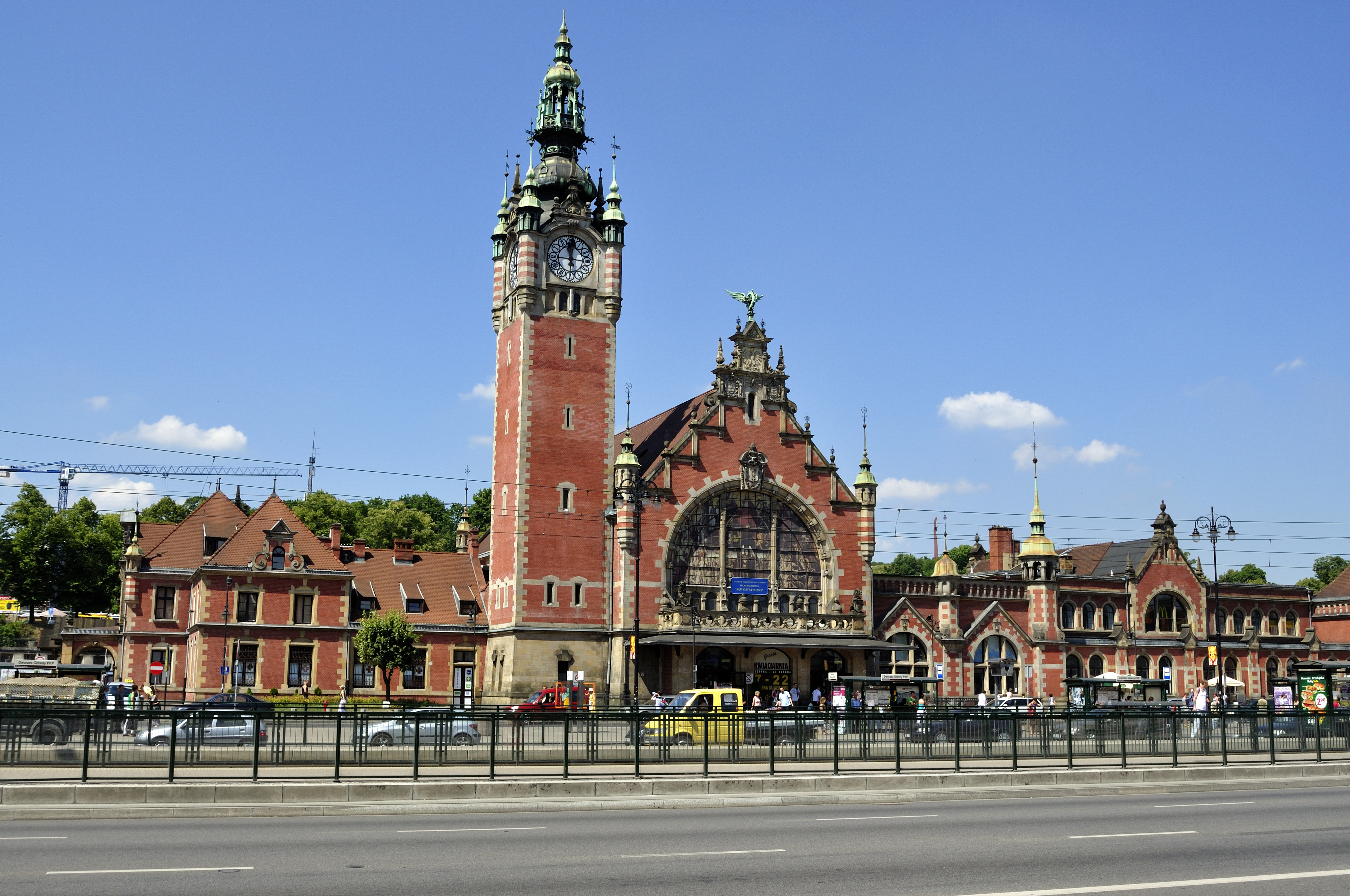 Picture taken in Gdańsk after Wikimania 2010 conference.